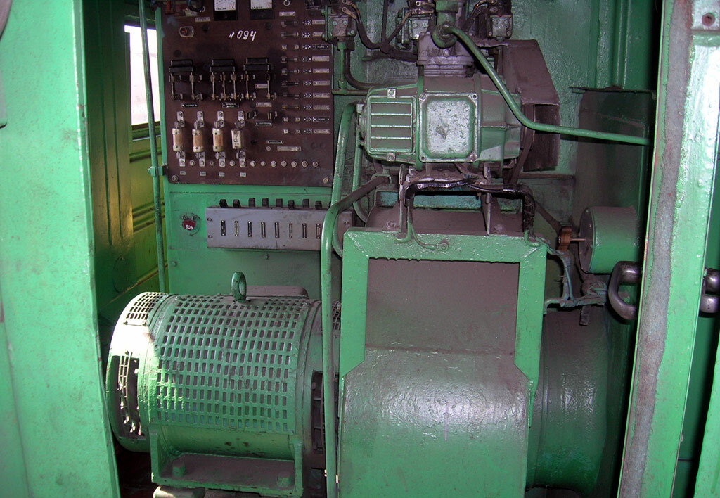 Motor ventilator